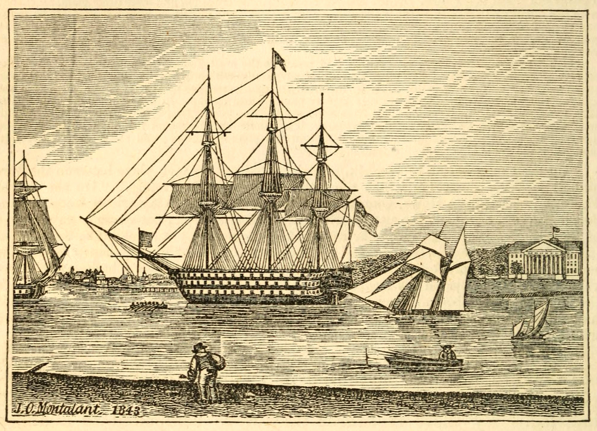 "View of the Harbor in Portsmouth", an engraving from Henry Howe's Historical Collections of Virginia (1845)